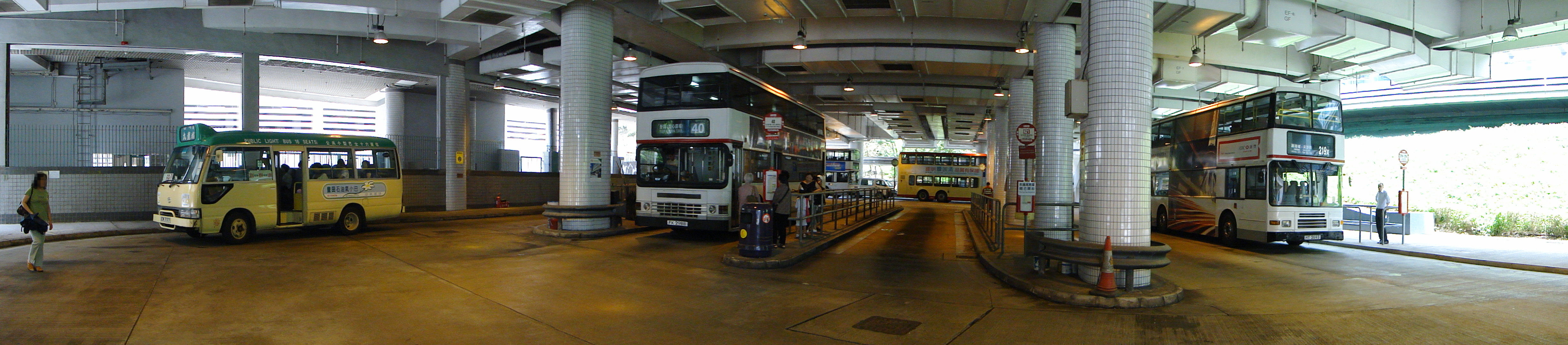 Laguna City Public Transport Interchange, Hong Kong.